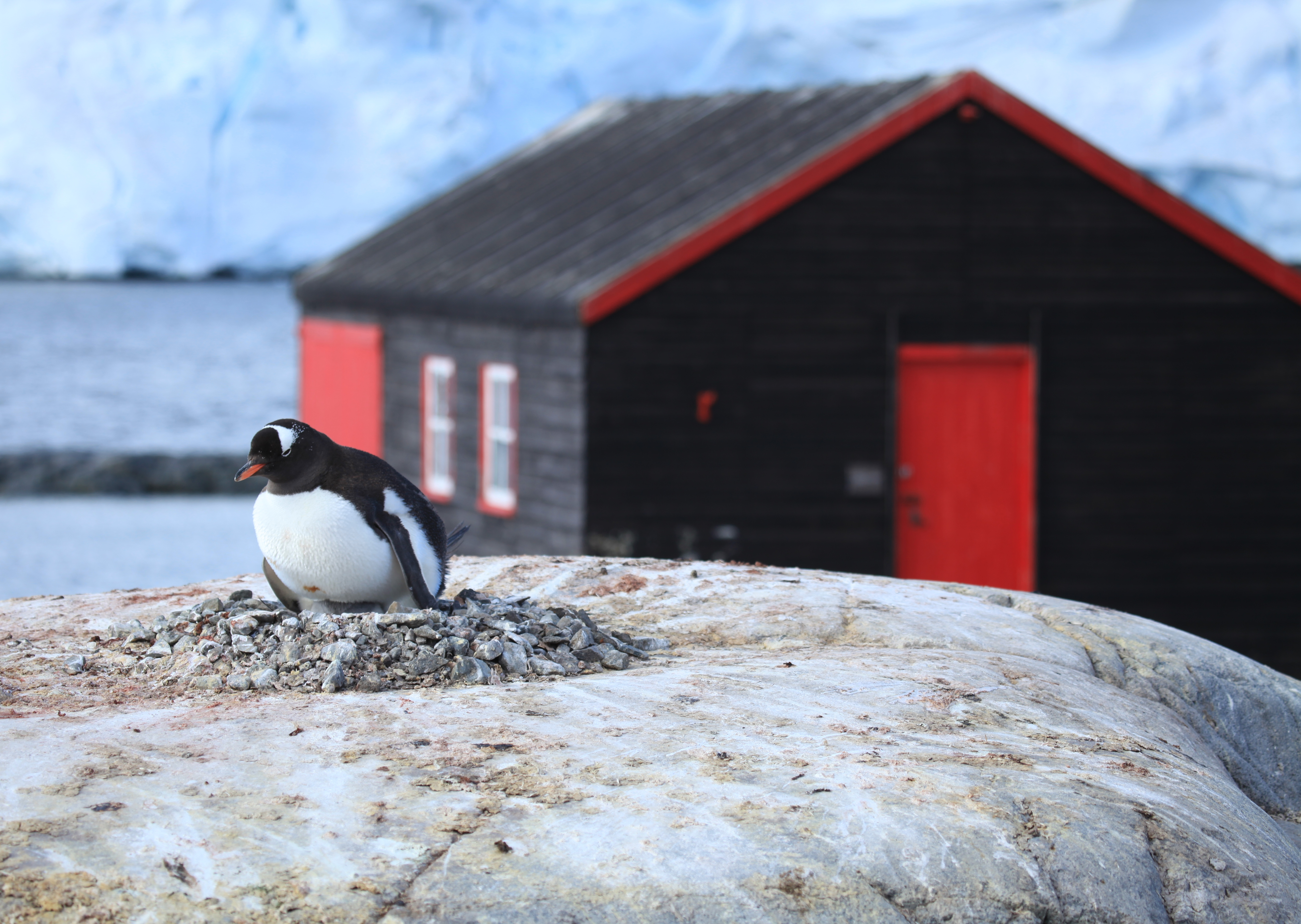 The boathouse of British Base A can be seen in the background.